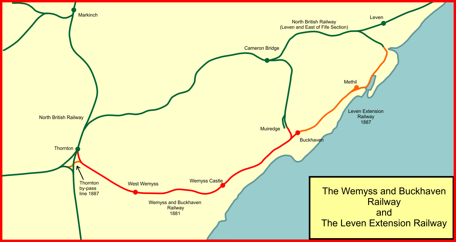 System map of the Wemyss and Buckhaven Railway, Fife, Scotland